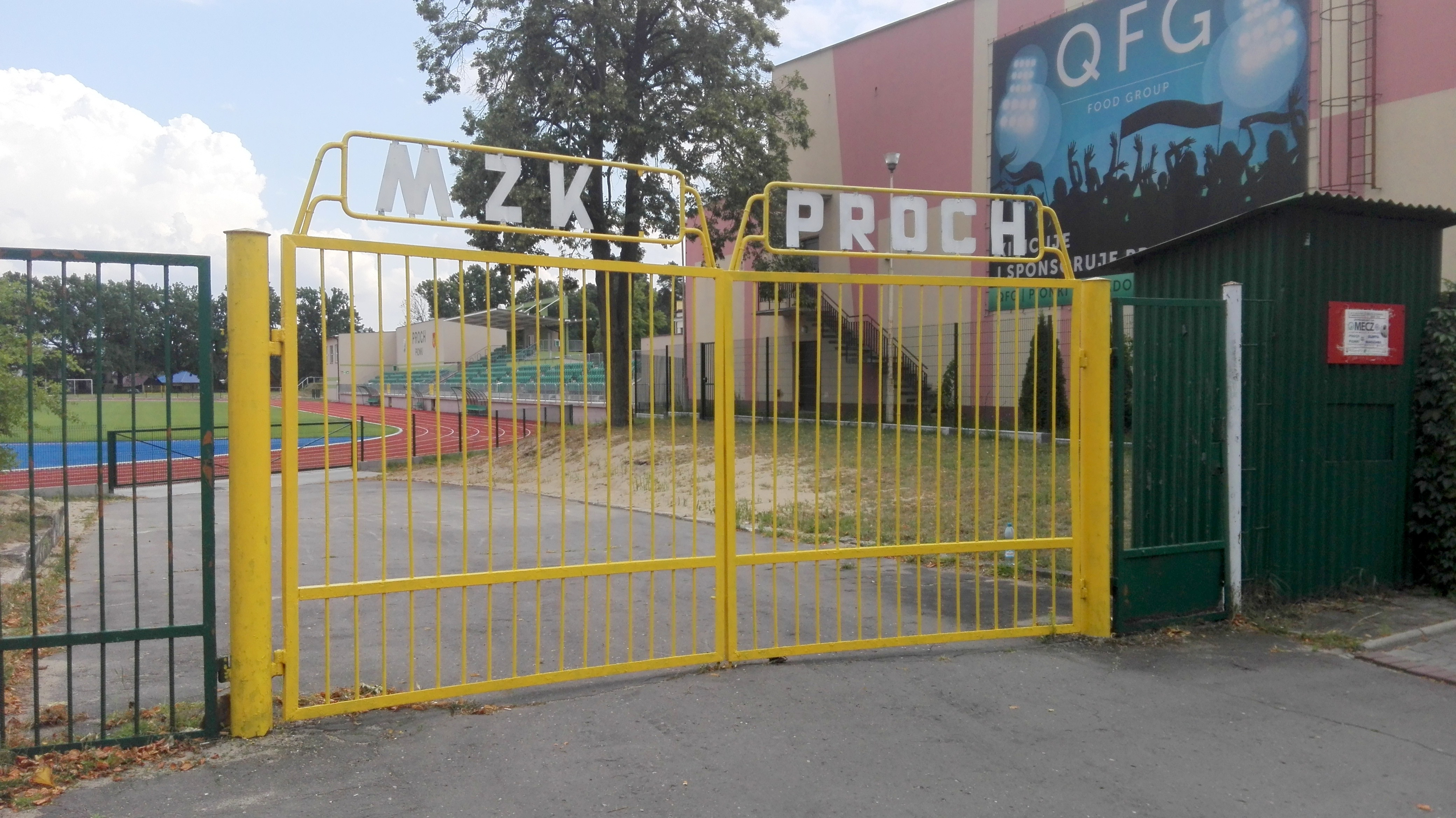 1 Sportowa Street in Pionki. Municipal Stadium in Pionki